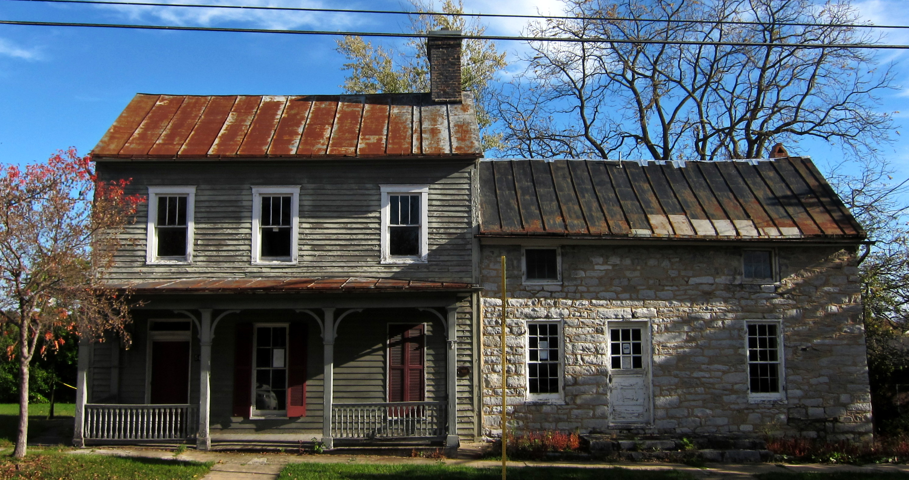 The Stone House located at 5420 Main Street in Stephens City, Virginia. The property includes the original stone portion, built in the 1760s, and the adjoining log portion, built in 1786. The building is designated a contributing property to the Newtown-Stephensburg Historic District, listed on the National Register of Historic Places in 1992.